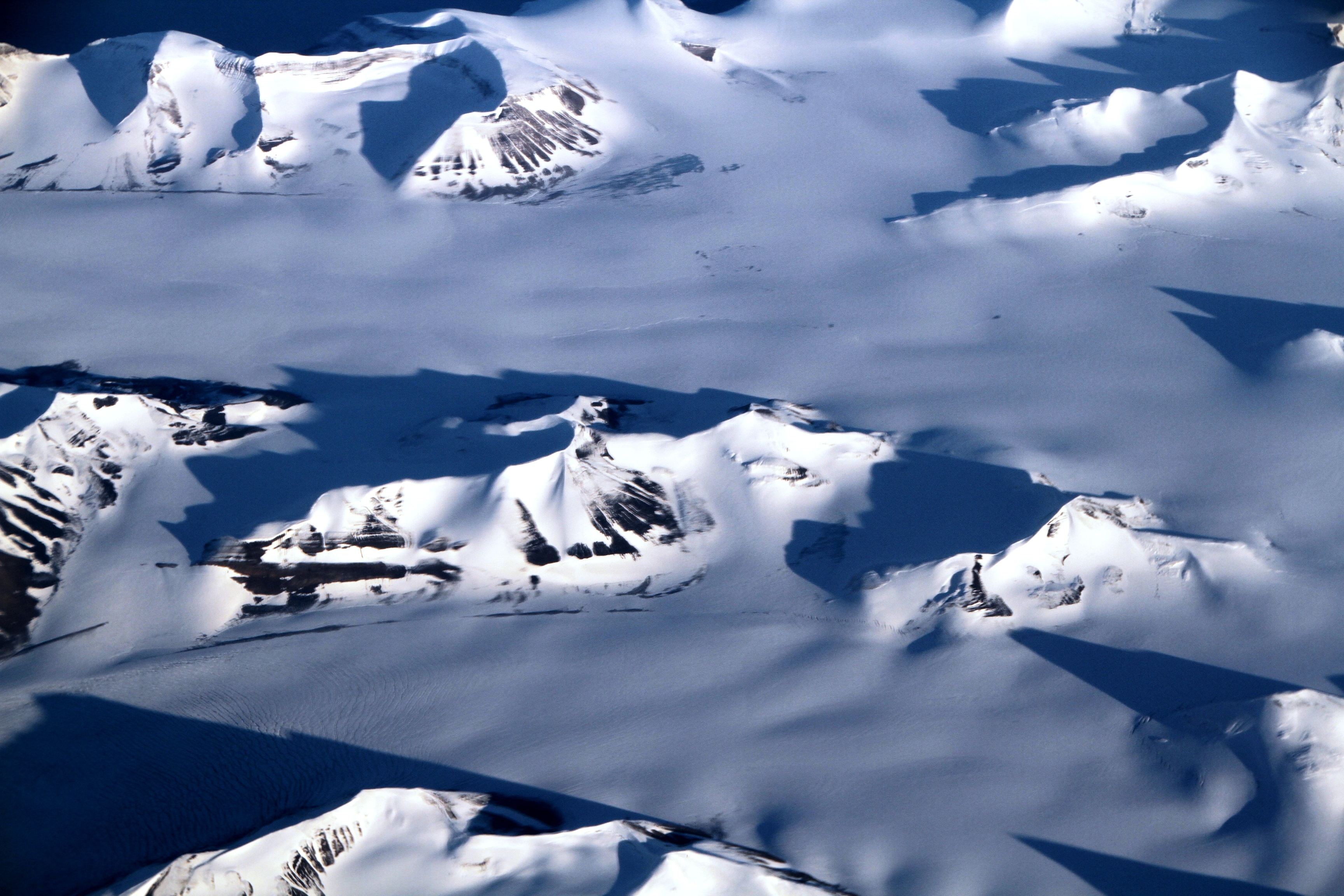 Aerial photo, from the west towards east, of the Sørkapp Land southernmost parts of Spitsbergen, Svalbard.